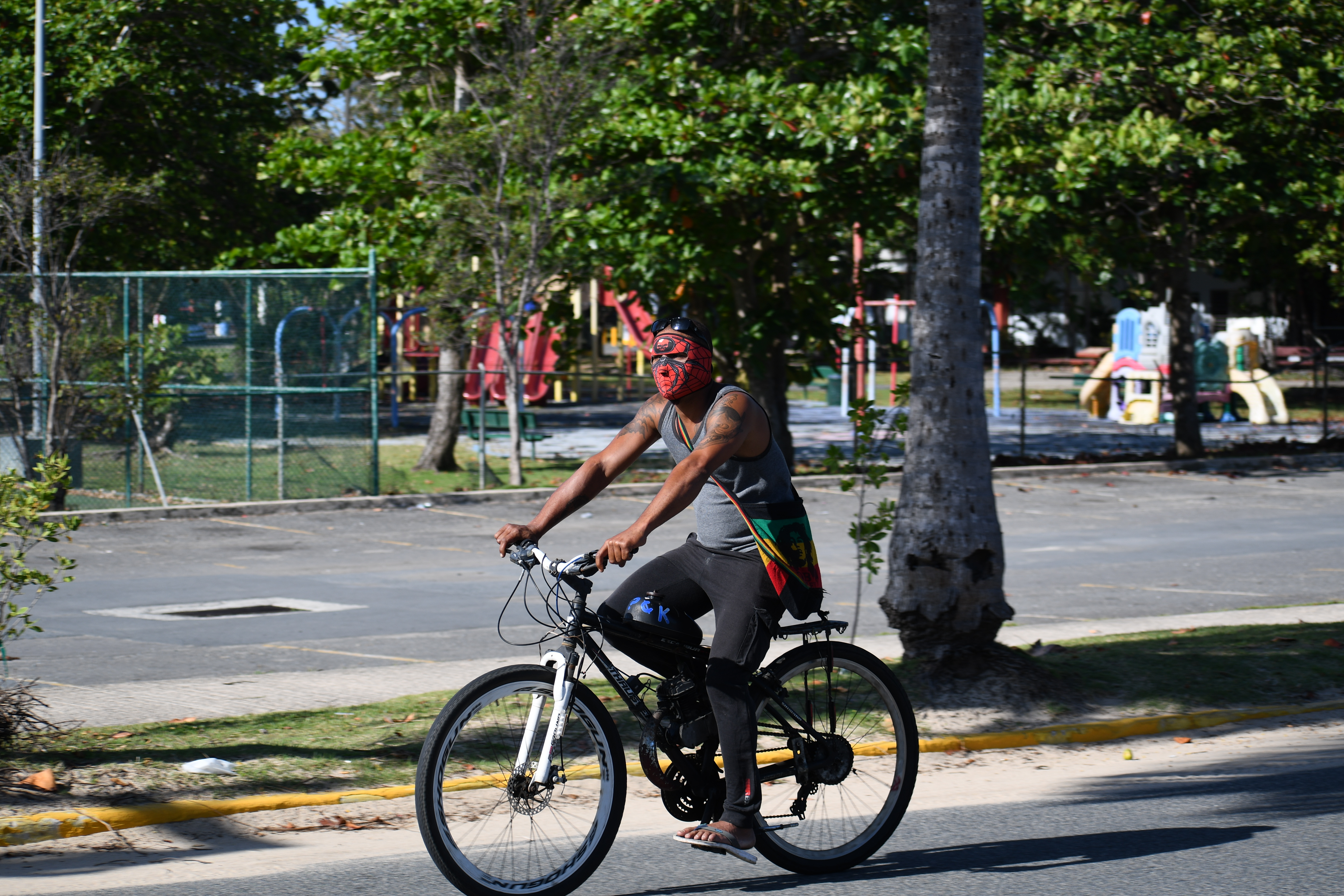 During the first weeks of the quarantine no one was allowed to leave the houses on the island.